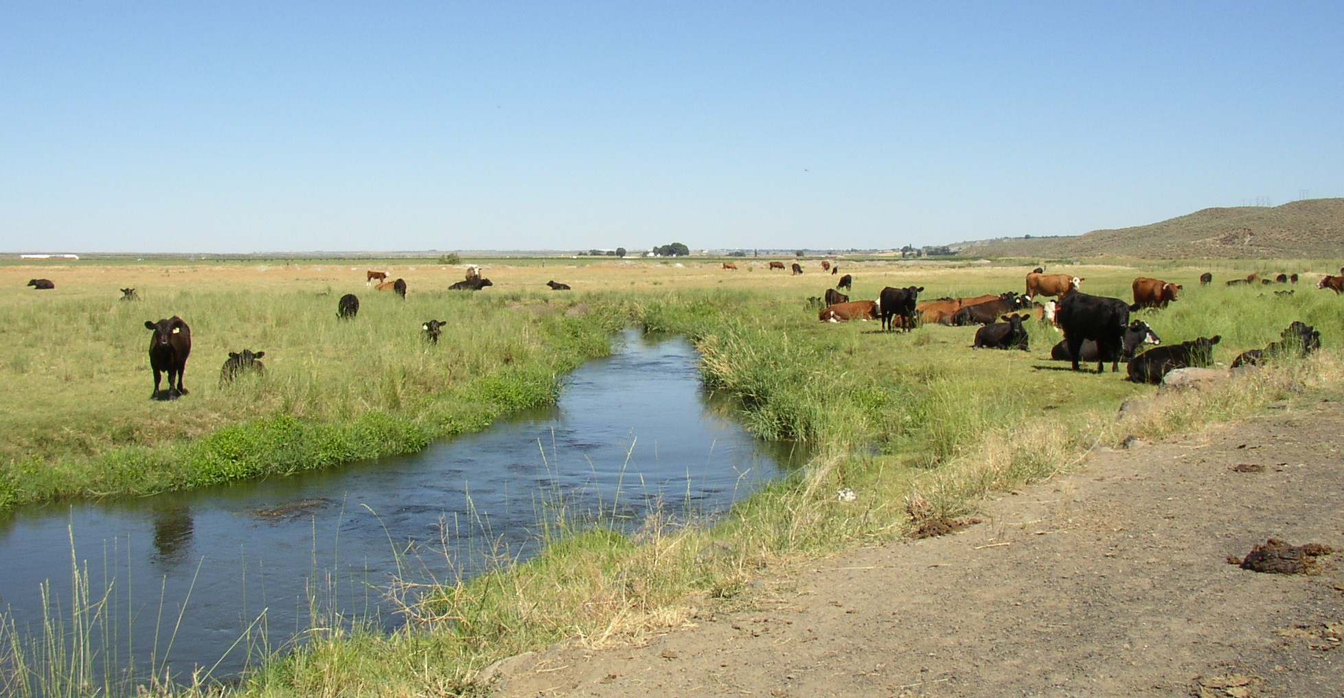 Lower Crab Creek above confluence with Red Rock Coulee. Photo taken by uploader in July, 2006. All rights released. Williamborg 05:46, 23 November 2006 (UTC)